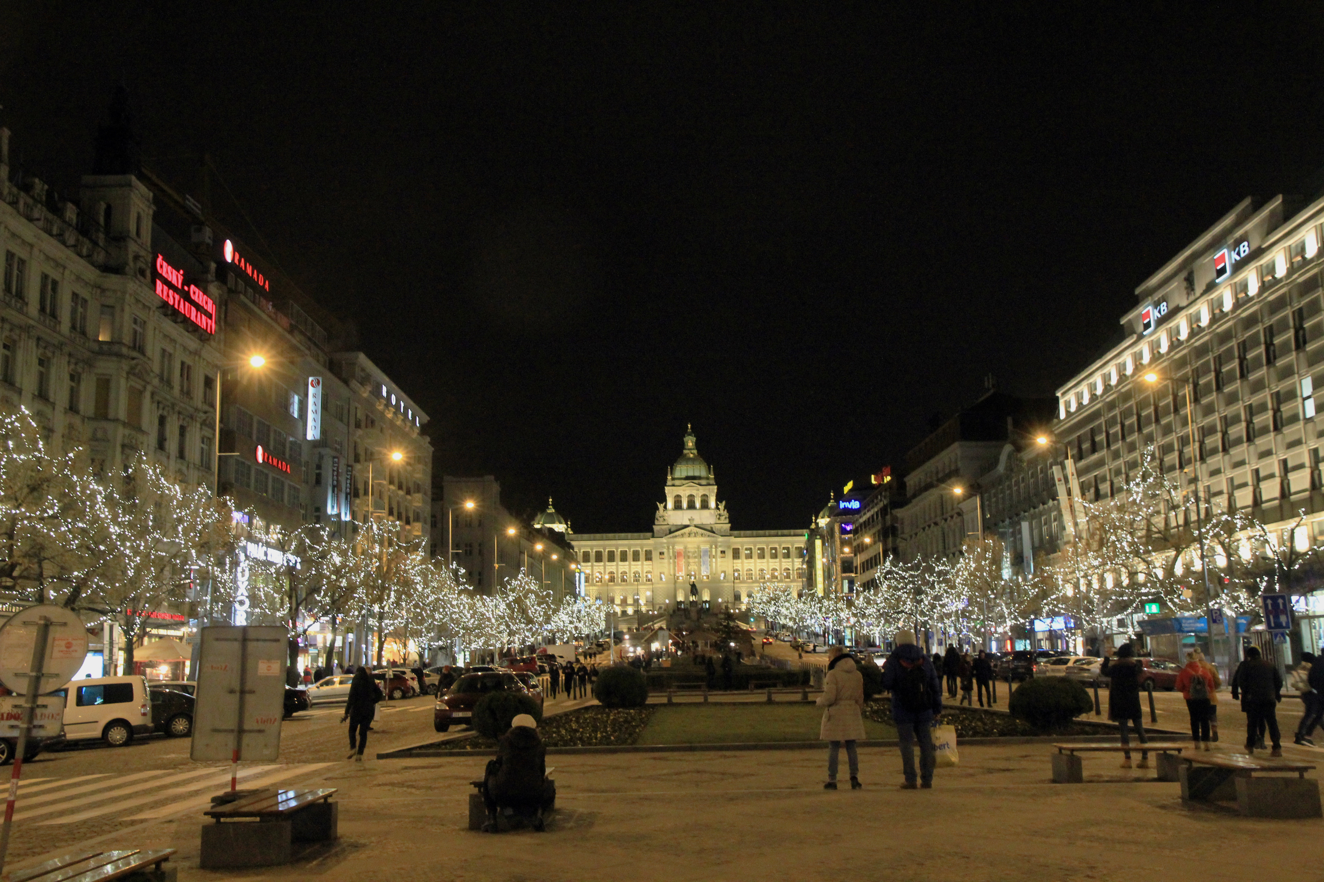 Christmas decorations of Wenceslas Square and iluminateg National Museum, Prague, Czech Republic 2018